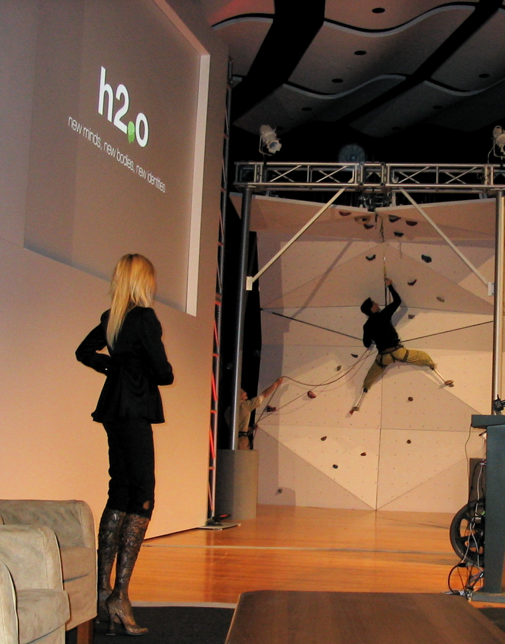 The artificially-legged Aimee Mullins watches the also artificially-legged Hugh Herr climb the wall at the MIT Media Lab's h2.0 symposium on 9 May, 2007.